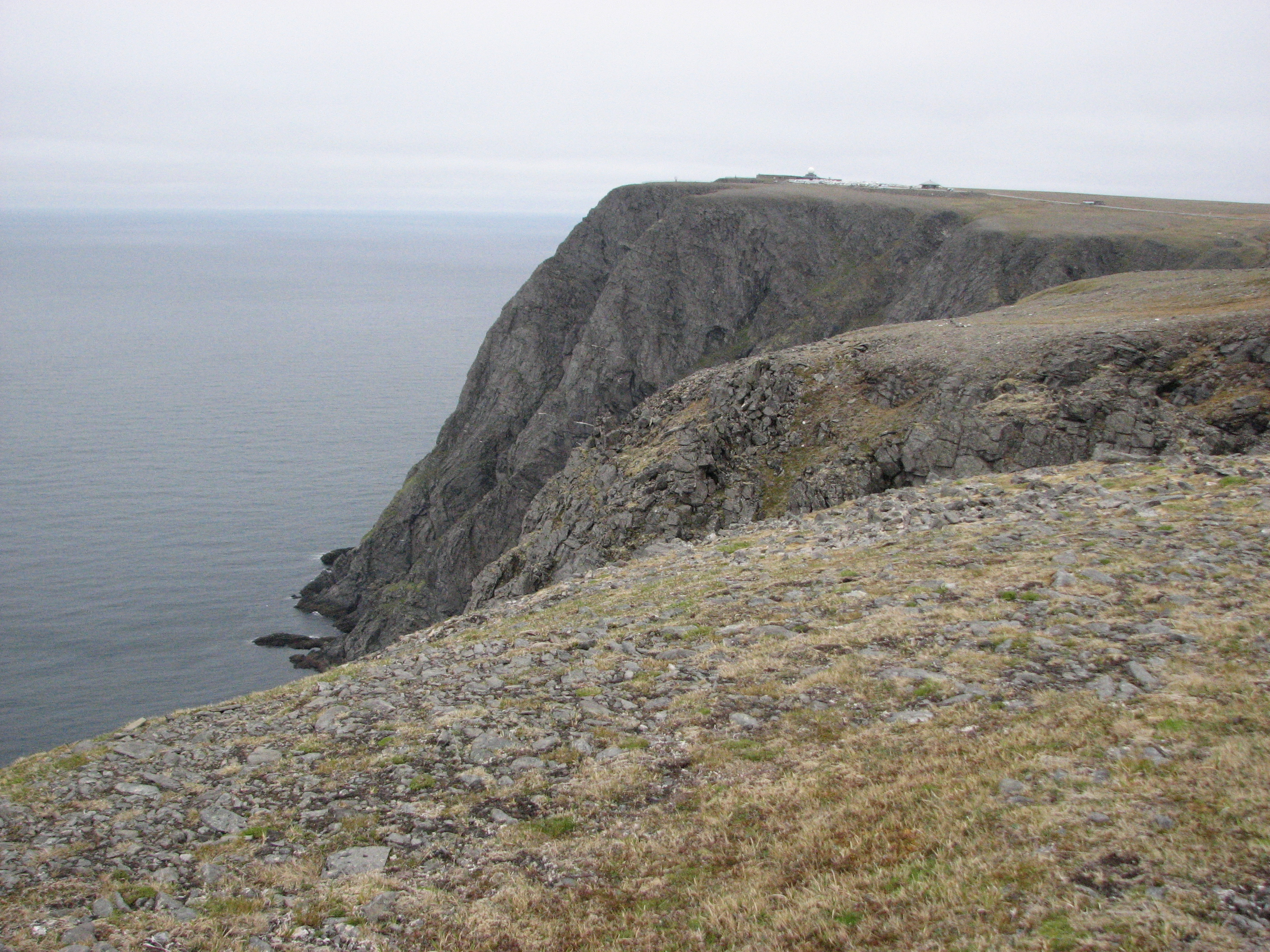 North Cape - View from SW